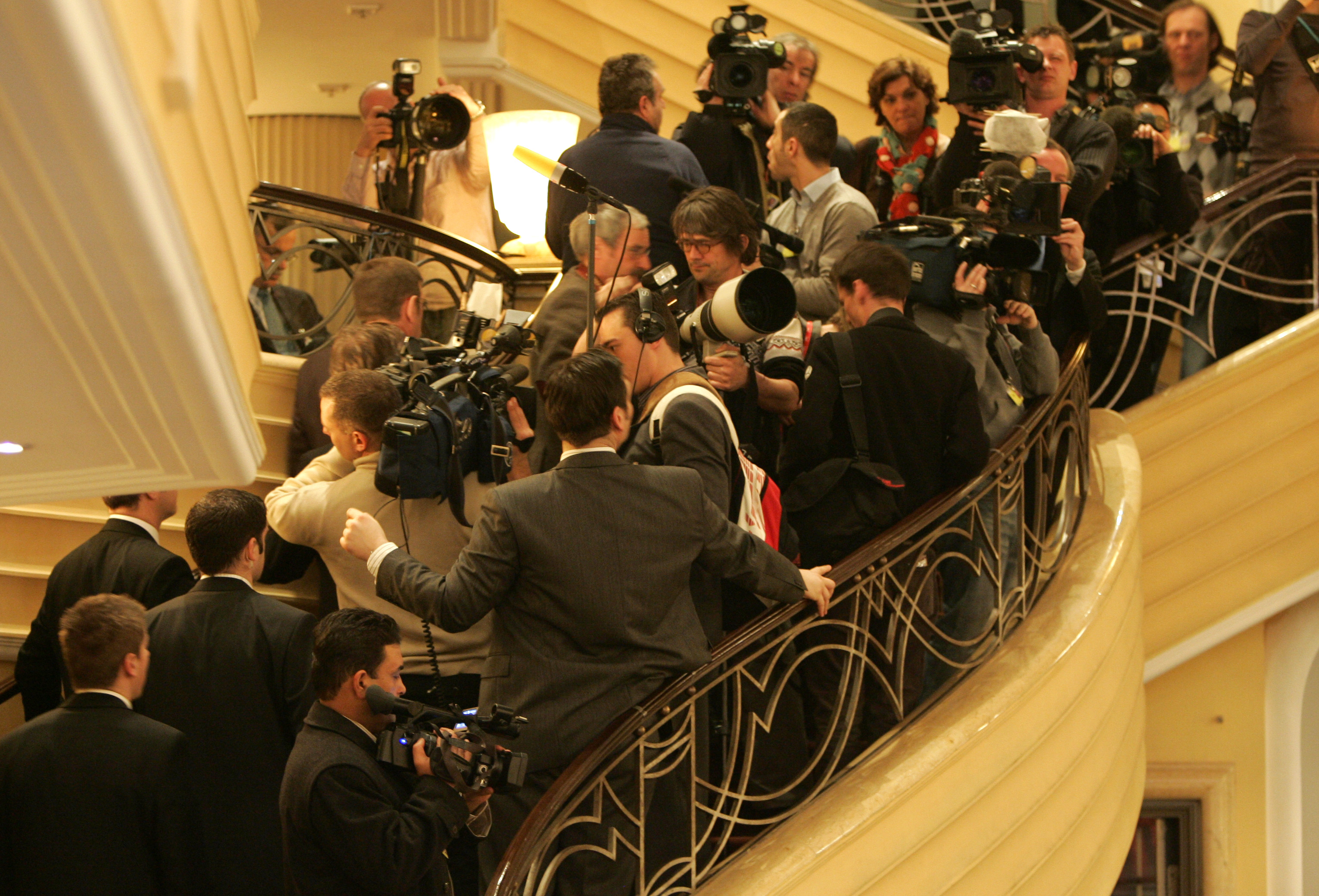 45th Munich Security Conference 2009: Impressions on Sunday.